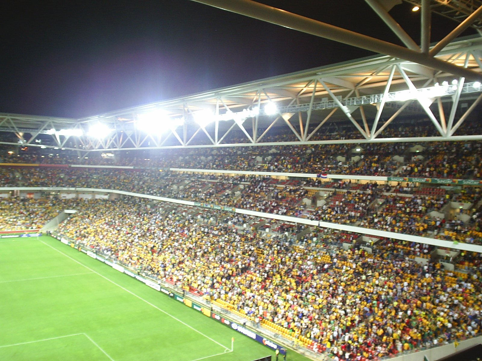 Suncorp Stadium before the 07/10/06 Australia v Paraguay friendly taken by Qld matt 03:46, 12 October 2006 (UTC)